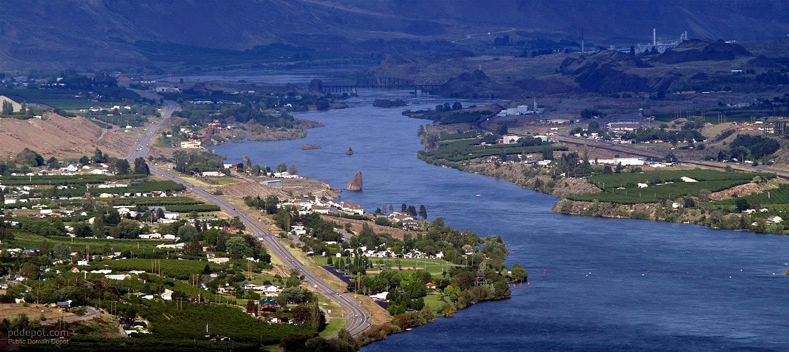 Rock Island, looking east up the Colombia River. A bridge for the Great Northern Railway is seen in the distance. Image title: City along river Image from Public domain images website